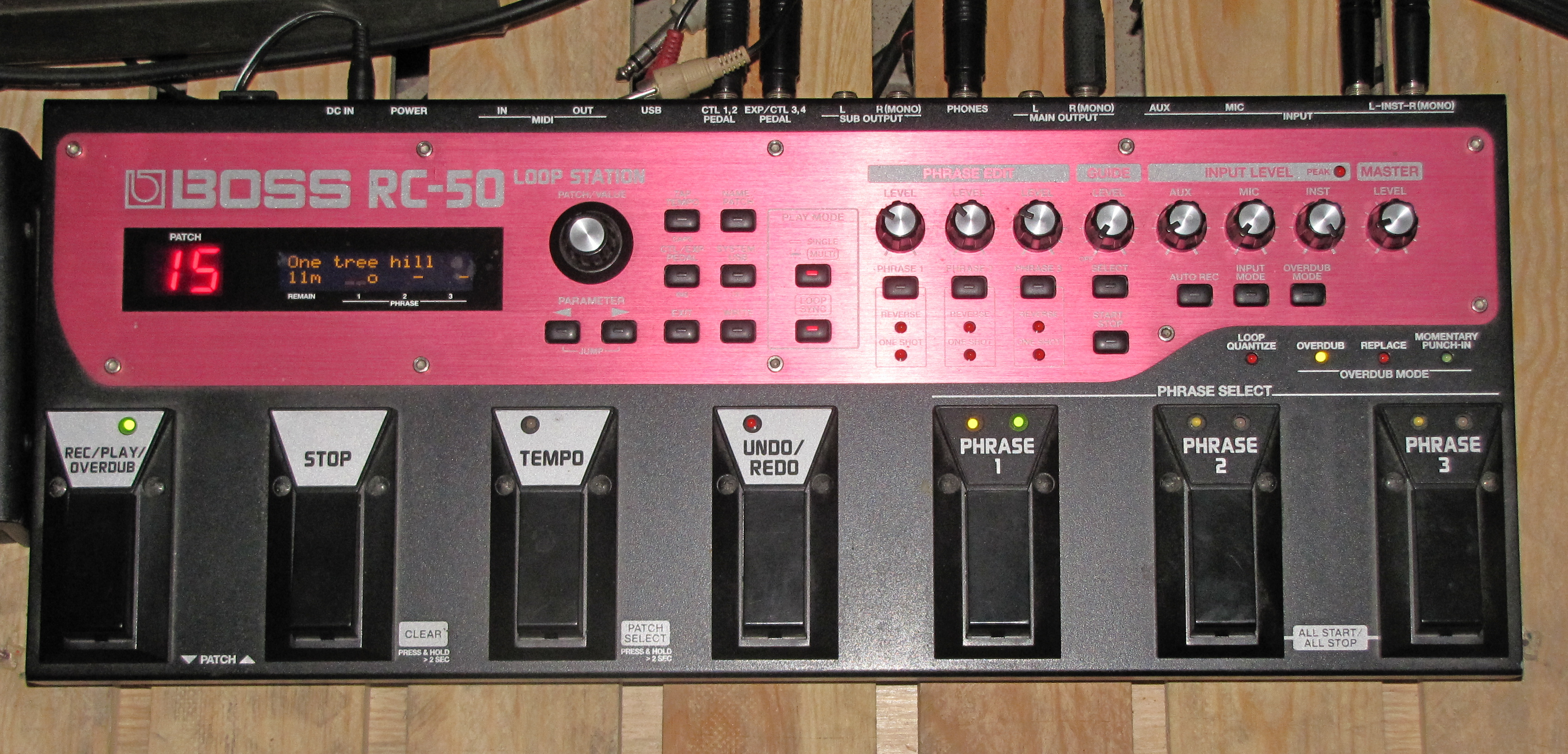 Boss RC-50 Loop Station